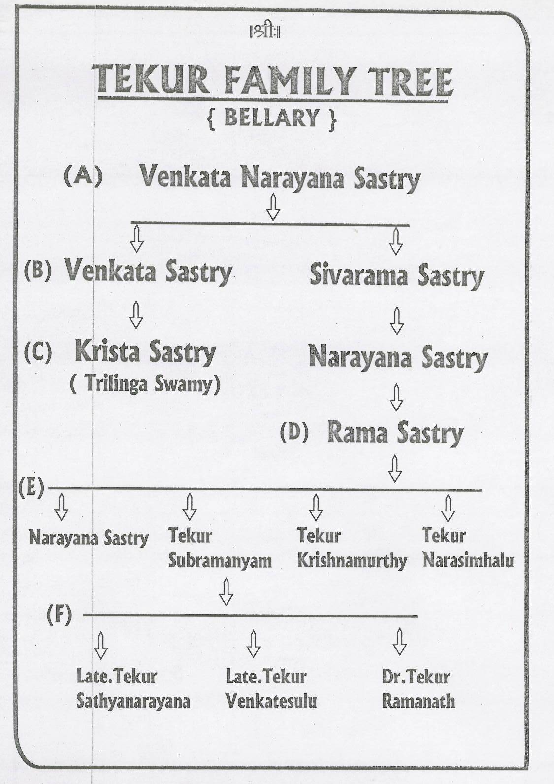 Family Tree of Tekur Subramanyam, Member of Parliament, Bellary (1952-1967)